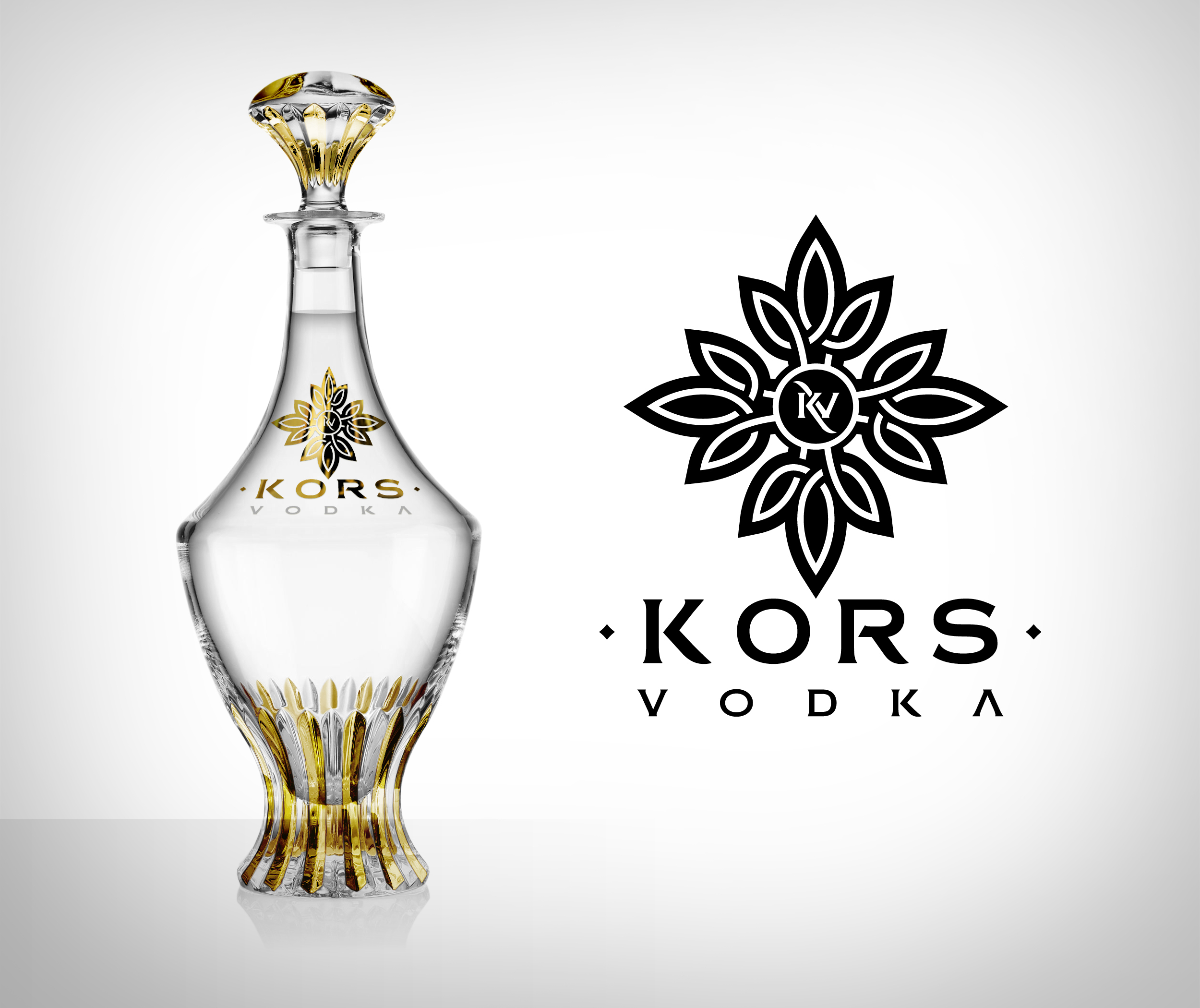 Kors - Kors Vodka is World's Most Exclusive and Expensive Vodka